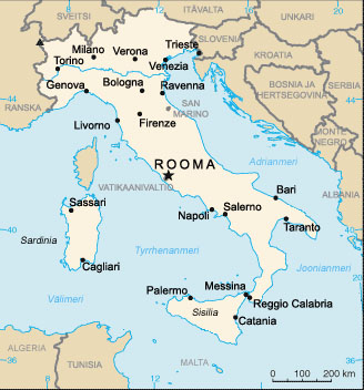 Map of Italy with finnish names.